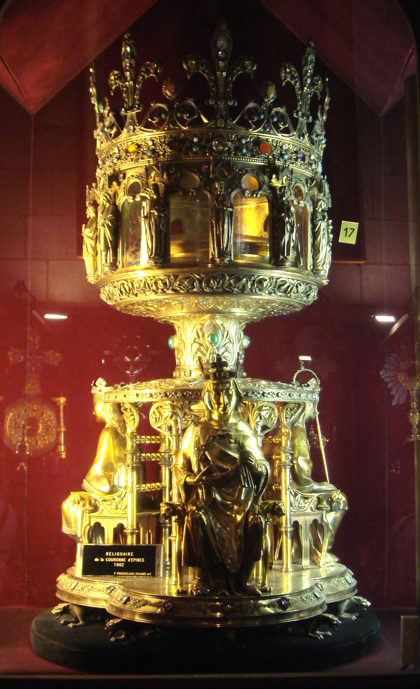 19th century reliquary of The Holy Crown of Jesus Christ, preserved at Notre-Dame, Paris.